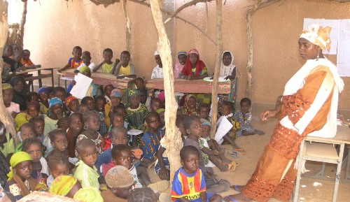 US Embassy in Niger: Students in make-shift classrooms like these will be beneficiaries of school building projects funded through the MCC threshold program